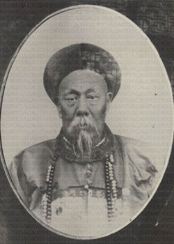 Qing dynasty General Dǒng Fùxiáng 1839-1908